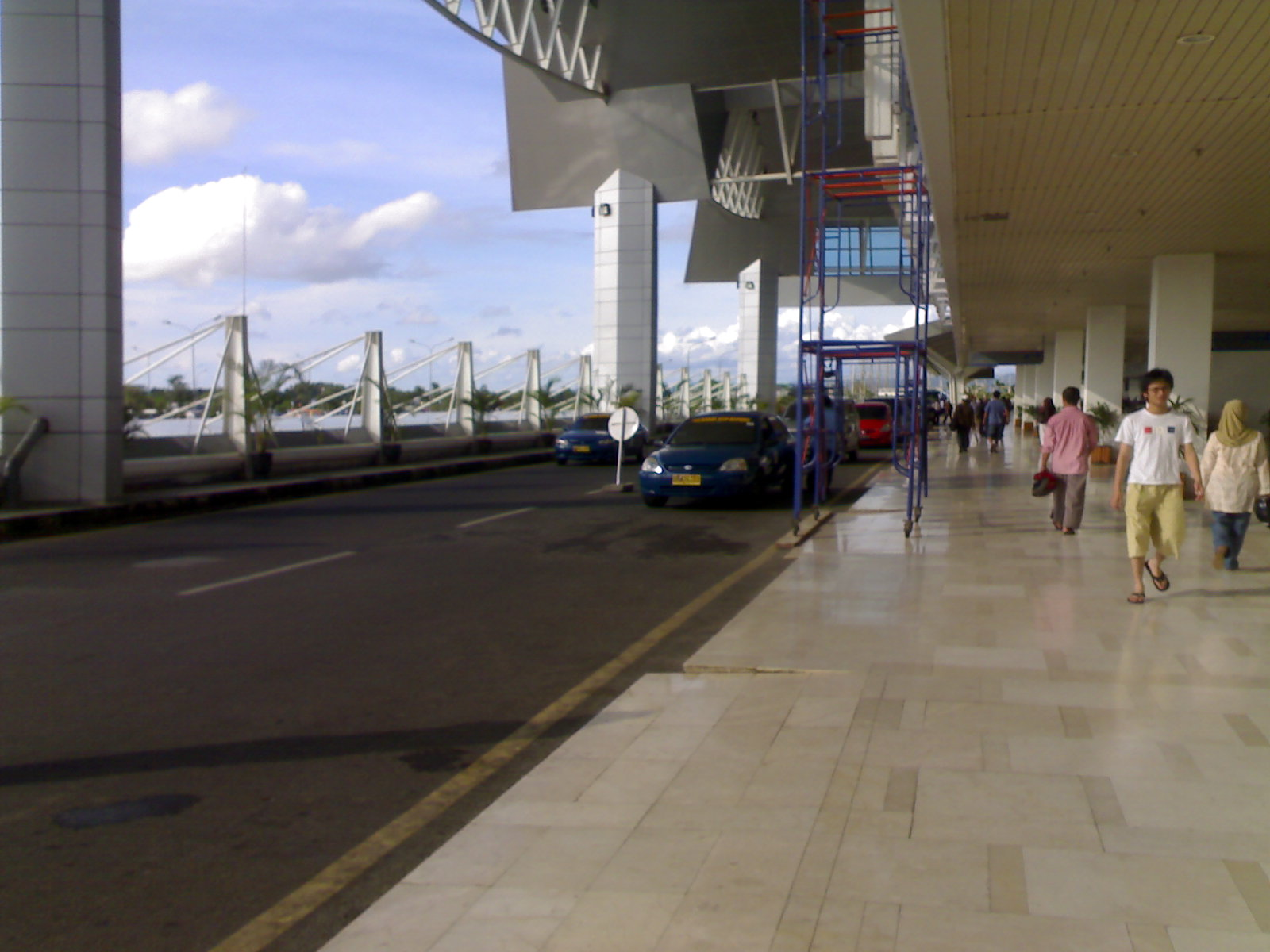 Sultan Hasanuddin International Airport